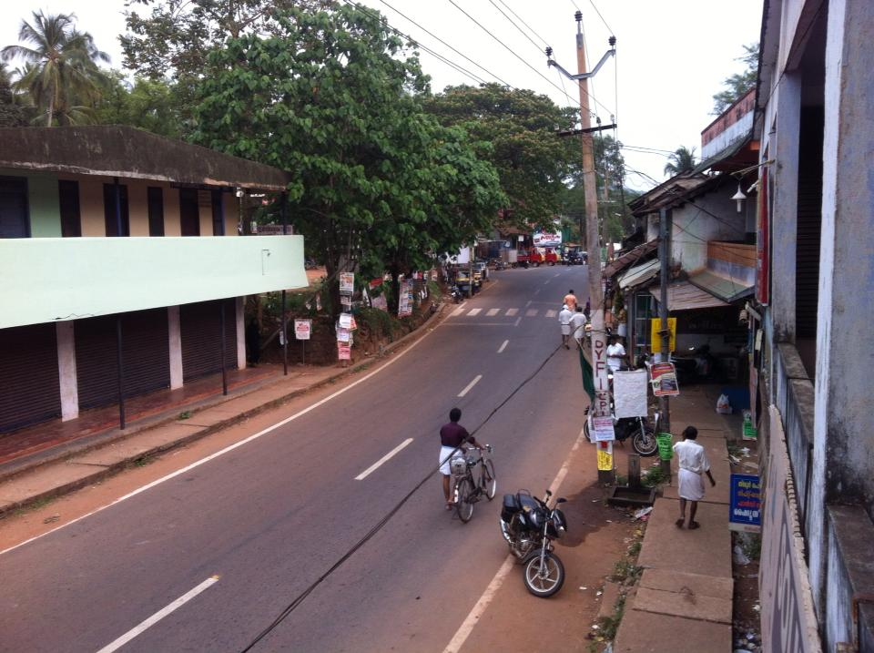 A small town located in the Kozhikode district of Kerala,India